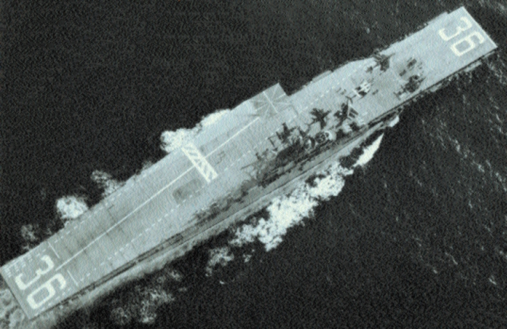 An overhead view of the U.S. Navy aircraft carrier USS Antietam (CVA-36) after she was fitted with an angled deck in 1953. Various aricraft are spotted forward, among them Vought F7U Cutlass, McDonnell F2H Banshee, and North American FJ Fury fighters.